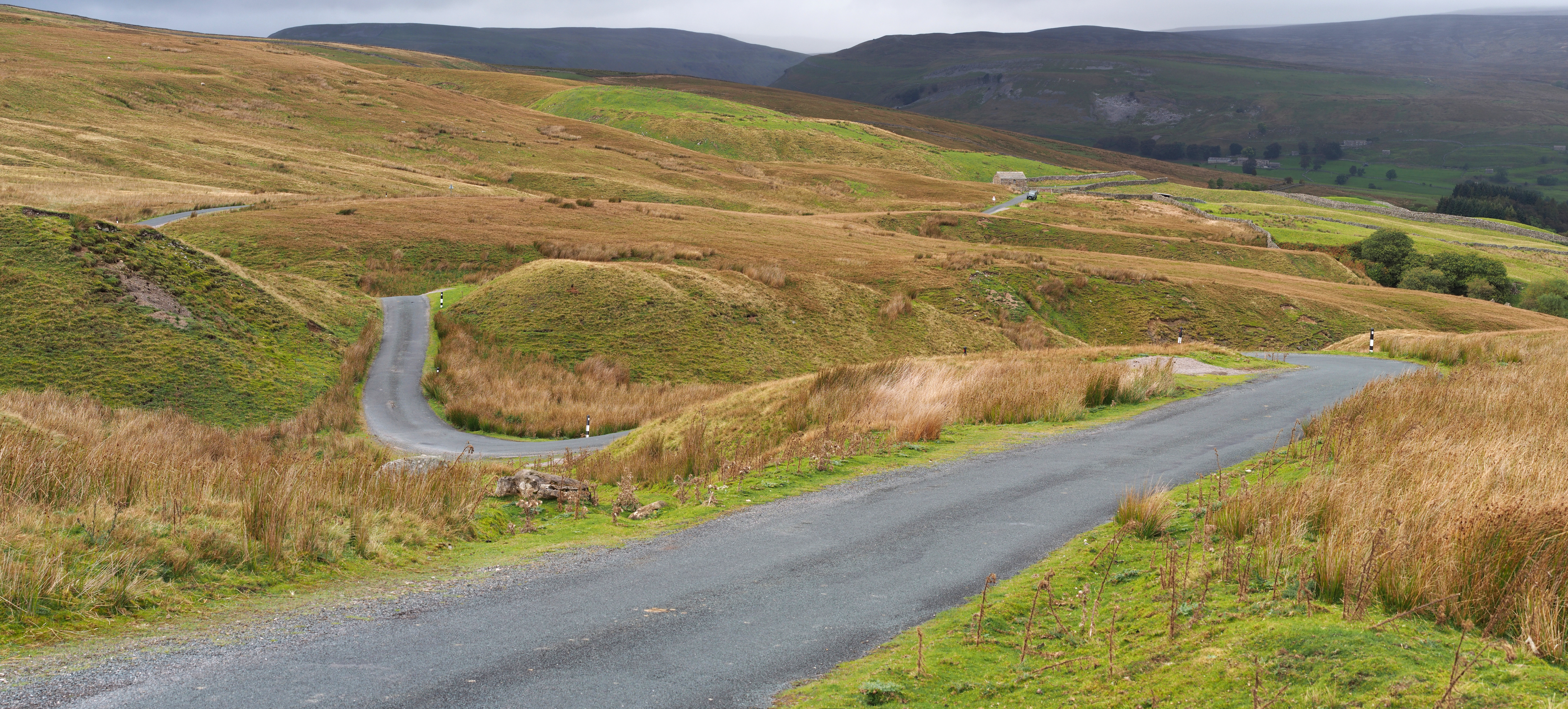 Country road in the Yorkshire Dales linking upper Swaledale to Askrigg, Wensleydale